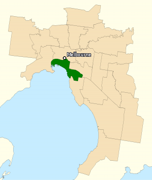 This image incorporates data that is: © Commonwealth of Australia (Australian Electoral Commission) 2009 Division of Melbourne Ports 2010